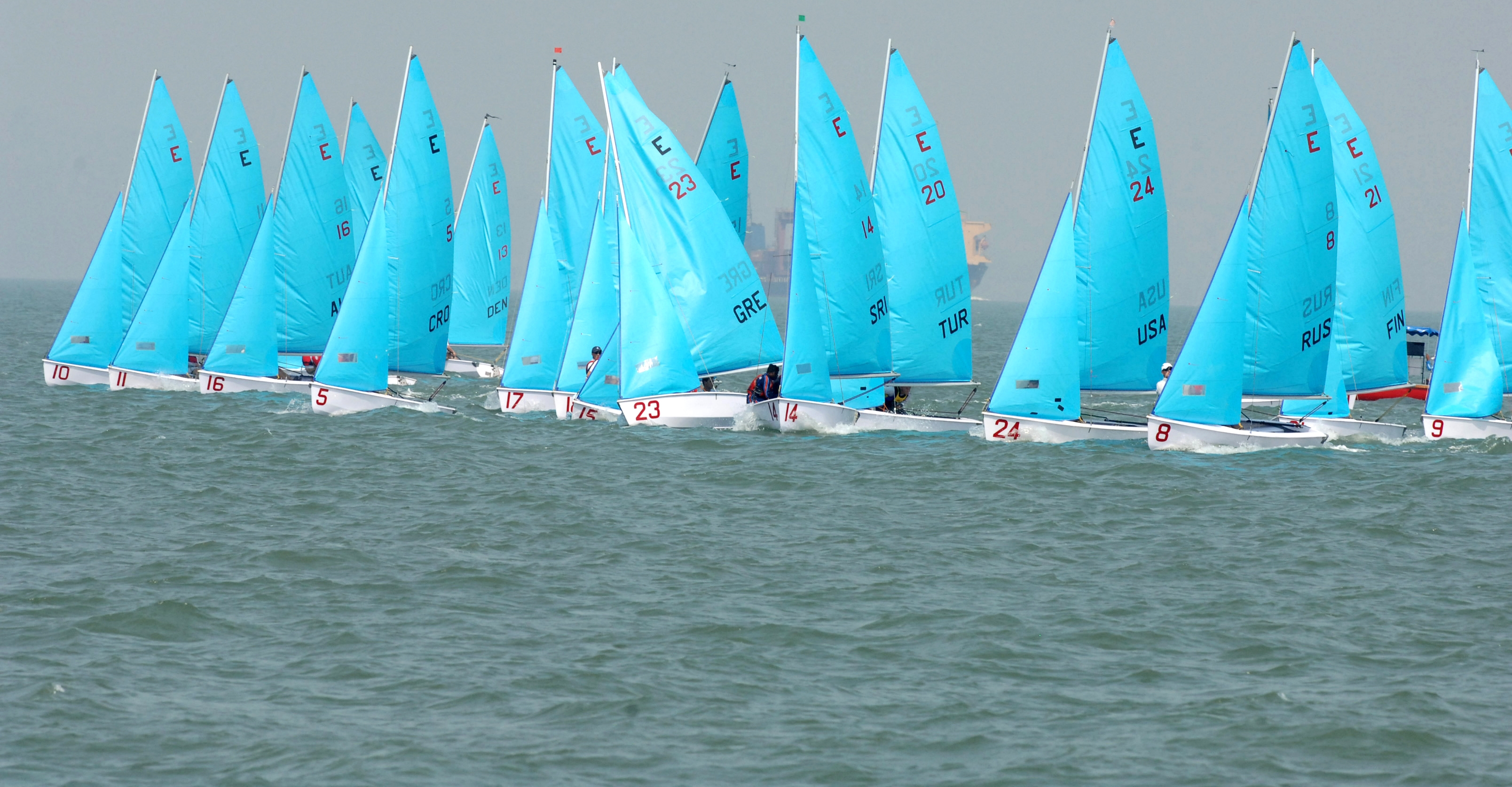 The U.S. armed forces sailing team and 24 other international teams line up for the start of the sailing competition.